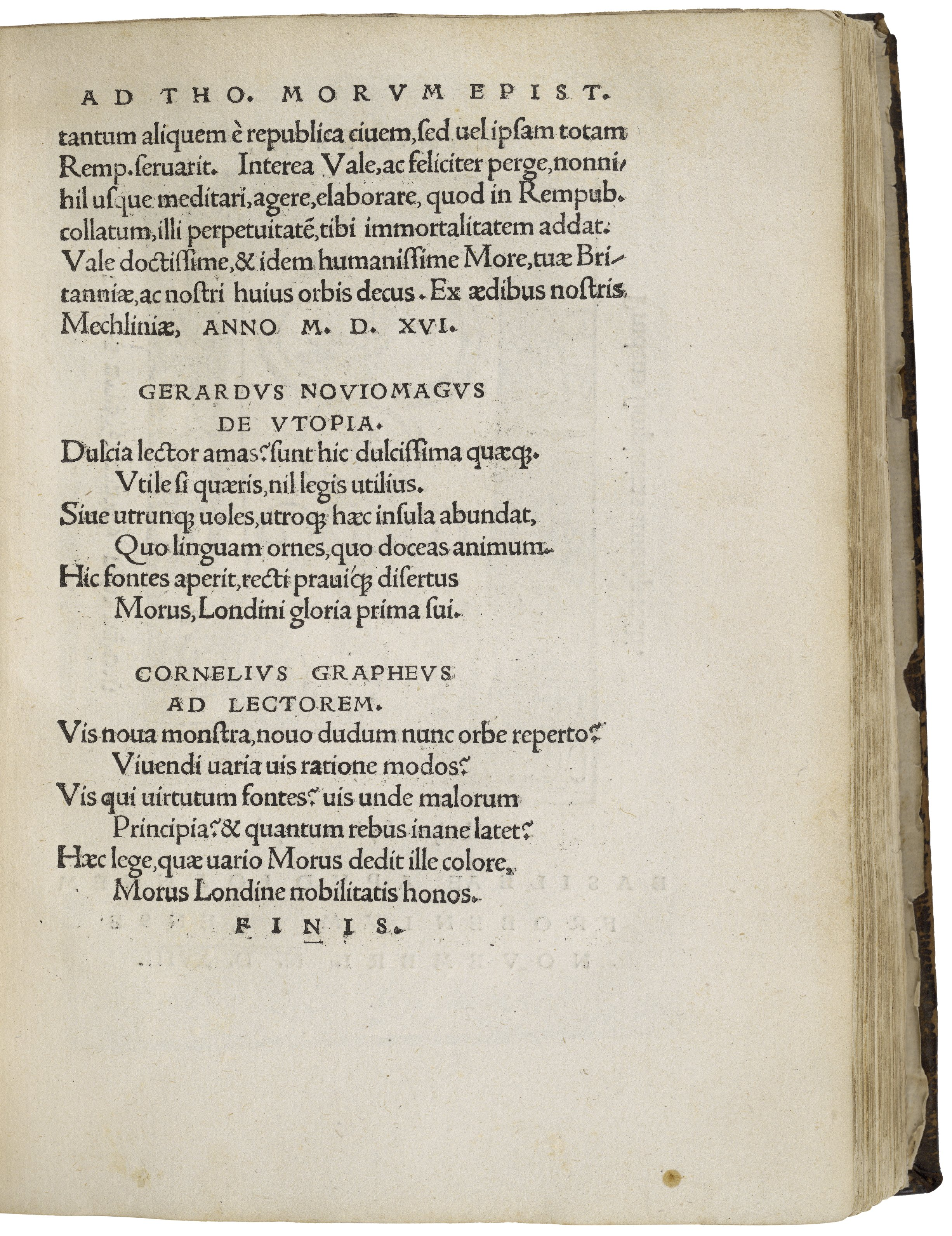 On this page of Thomas More's Utopia printed in november 1518, we can see the poems written by G. Noviomagus and C. Schrijver. We can also see the end of J. Busleyden letter addressed to Th. More.